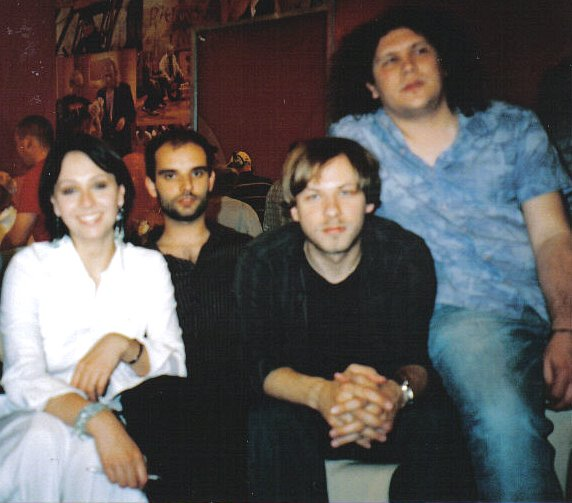 Blue Café, Polish music band